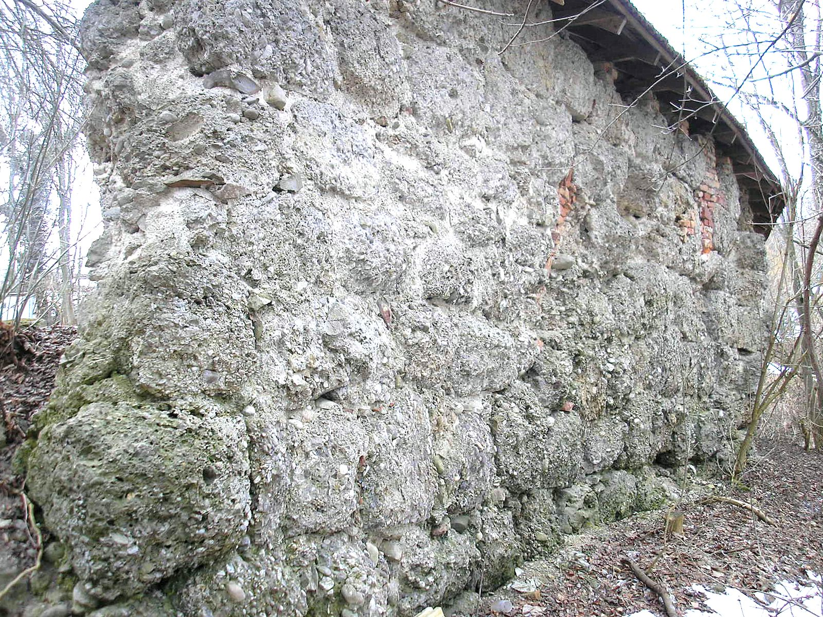 Kemnat castle (Kleinkemnat, Stadt Kaufbeuren, Allgäu, Bavaria). The north western wall of the central castle, seen from the east